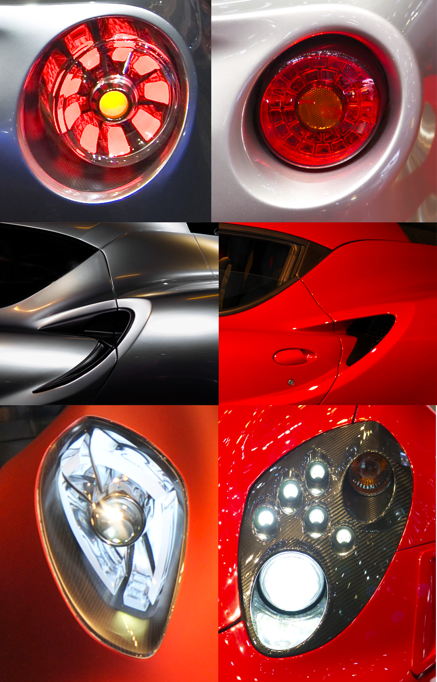 Differences between the 4C Concept 4C final. Red brake light, air slot.